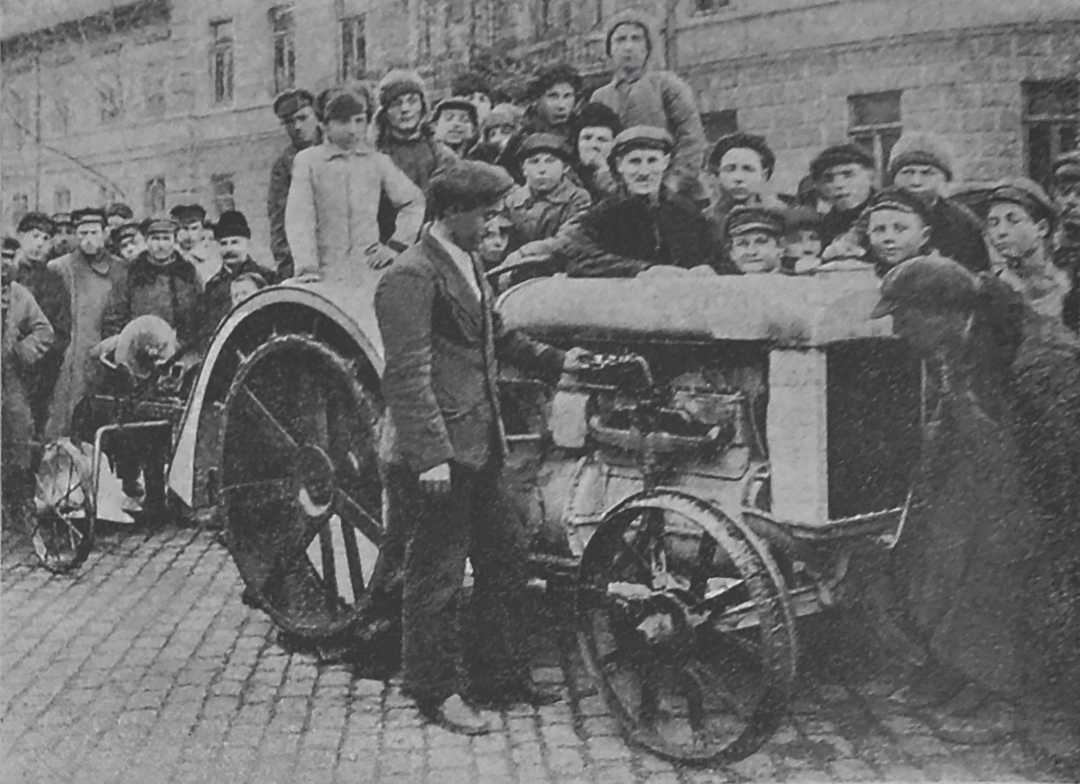 Fordson Model F tractor in seaport Odessa, Ukrainian SSR 1925. The Soviet Union imported 25,000 Ford tractors from 1921 till 1927. The Soviet industry produced the inferior copy of Fordson F under the brand Fordson-Putilovets (Krasny Putilovets/Kirov) from 1924 till 1932. The original simple design was for the light work of individual farmers and did not fit for the heavy-duty use on collective farms.